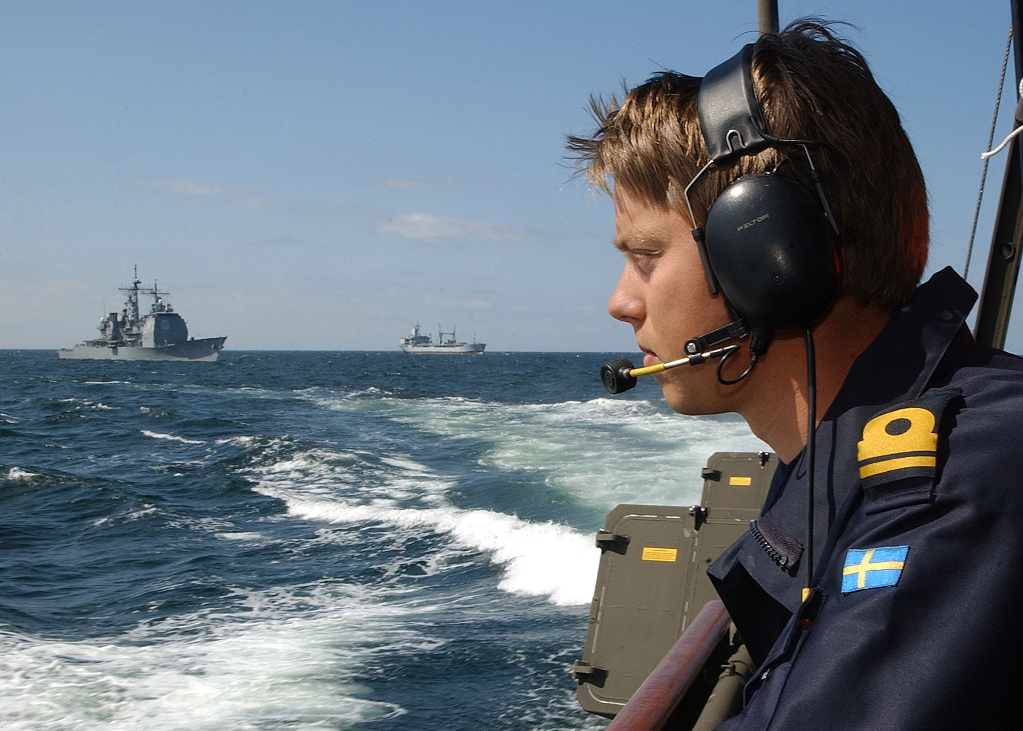 030613-N-4374S-014 Baltic Sea (Jun. 13, 2003) – A Swedish Officer assigned to fast patrol boat HSwMS Norrköping (R131), observes the Ticonderoga class, guided missile cruiser USS Vella Gulf (CG 72) and the German oiler FGS Rhoen (A 1443) in the Baltic Sea during the annual maritime exercise Baltic Operations 2003 (BALTOPS). The United States and 12 other nations are participating in this year's exercise. BALTOPS 2003 is intended to improve interoperability between allies and Partnership for Peace countries by conducting support operations at sea including exercises in gunnery, replenishment at sea, undersea warfare, radar tracking, mine countermeasures, seamanship, search and rescue, maritime interdiction operations, and scenarios dealing with potentially real world crises. U.S. Navy photo by Photographer’s Mate 2nd Class Michael Sandberg. (RELEASED)